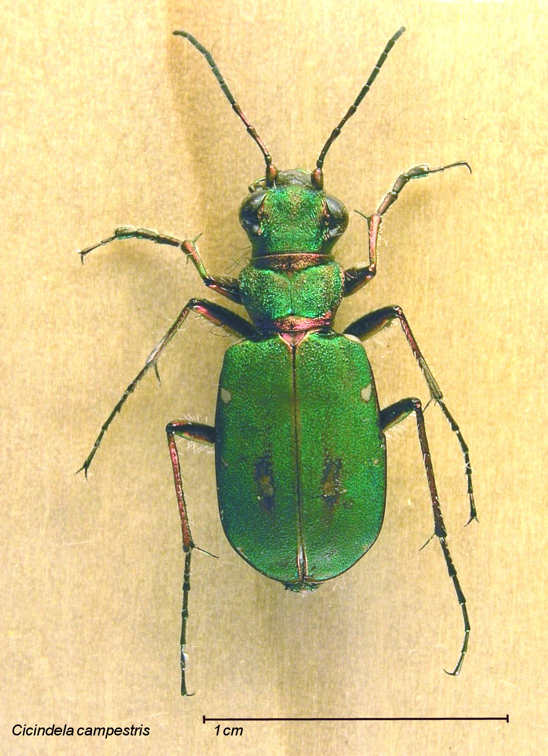 Cicindela campestris, caught 10 june 2006 Emst, Netherlands.